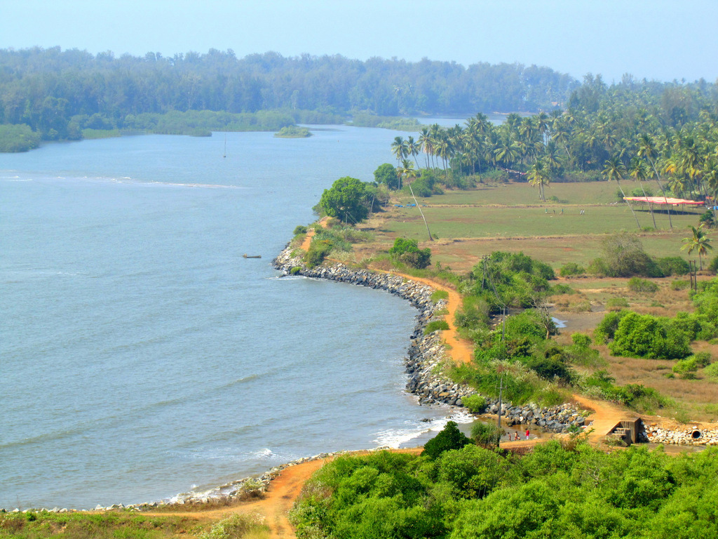 Kali river flows through Karwar, Uttara Kannada district of Karnataka state in India. The river starts near Diggi, a small village in Uttar Kannada district. The river is the lifeline to some 400,000 people in the Uttara Kannada district and supports the livelihoods of tens of thousands of people including fishermen on the coast of Karwar. There are many dams built across this river for the generation of electricity. One of the important dams build across Kali river is the Supa Dam at Ganeshgudi. The river runs 184 kilometers before joining Arabian Sea.